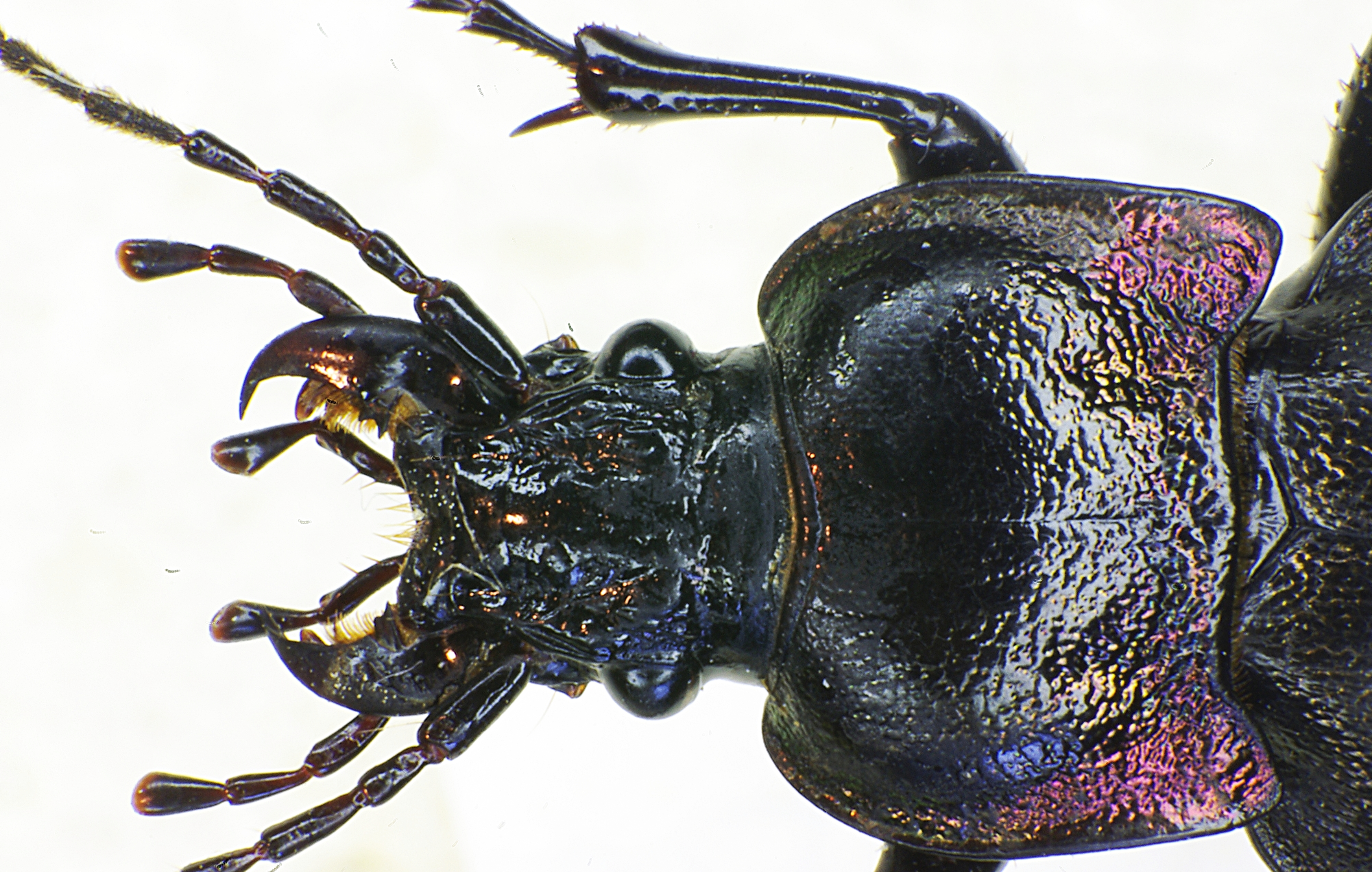 Head and Pronotum of Carabus nemoralis